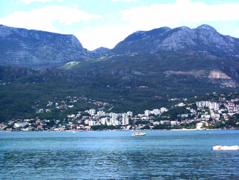 Igalo - a view from Njivice Photo by: Aleksandar Bogicevic